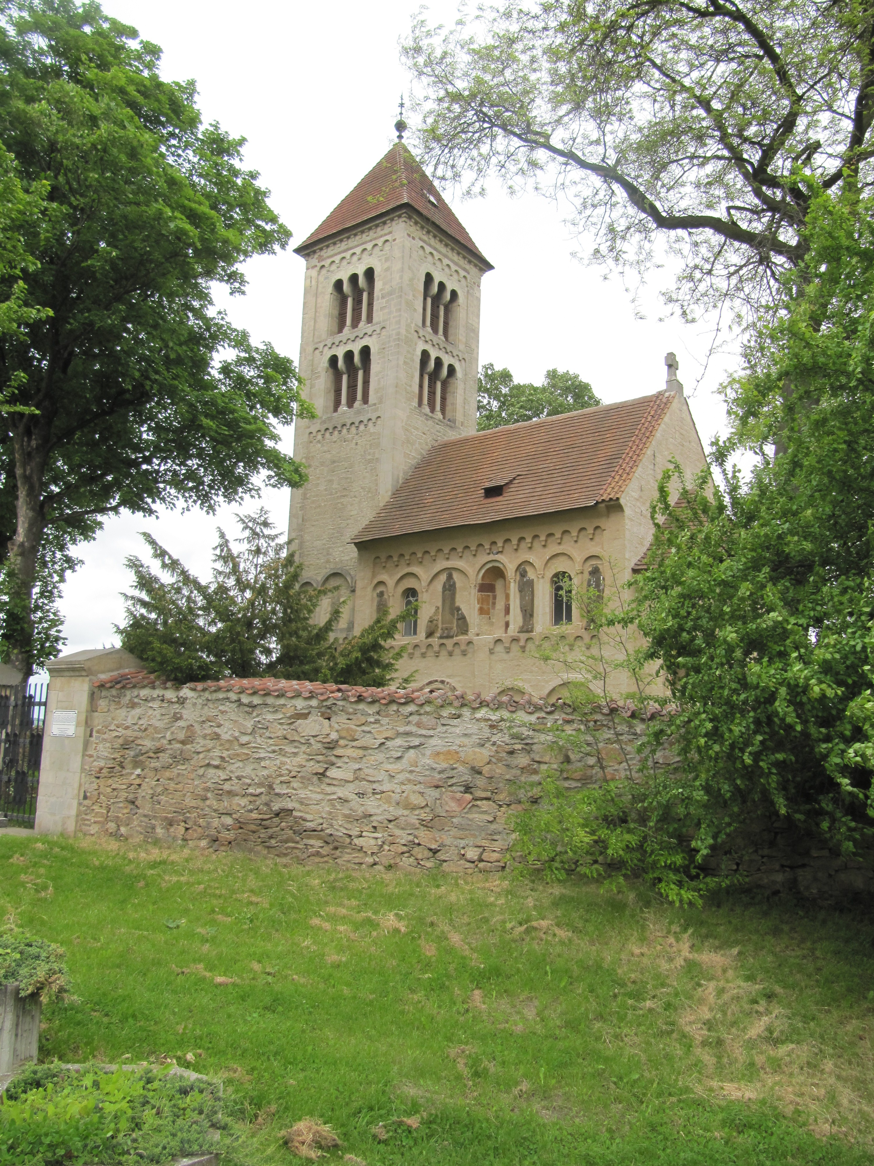 Církvice, Kutná Hora District, Czech Republic, part Jakub. Church of St. James the Greater.